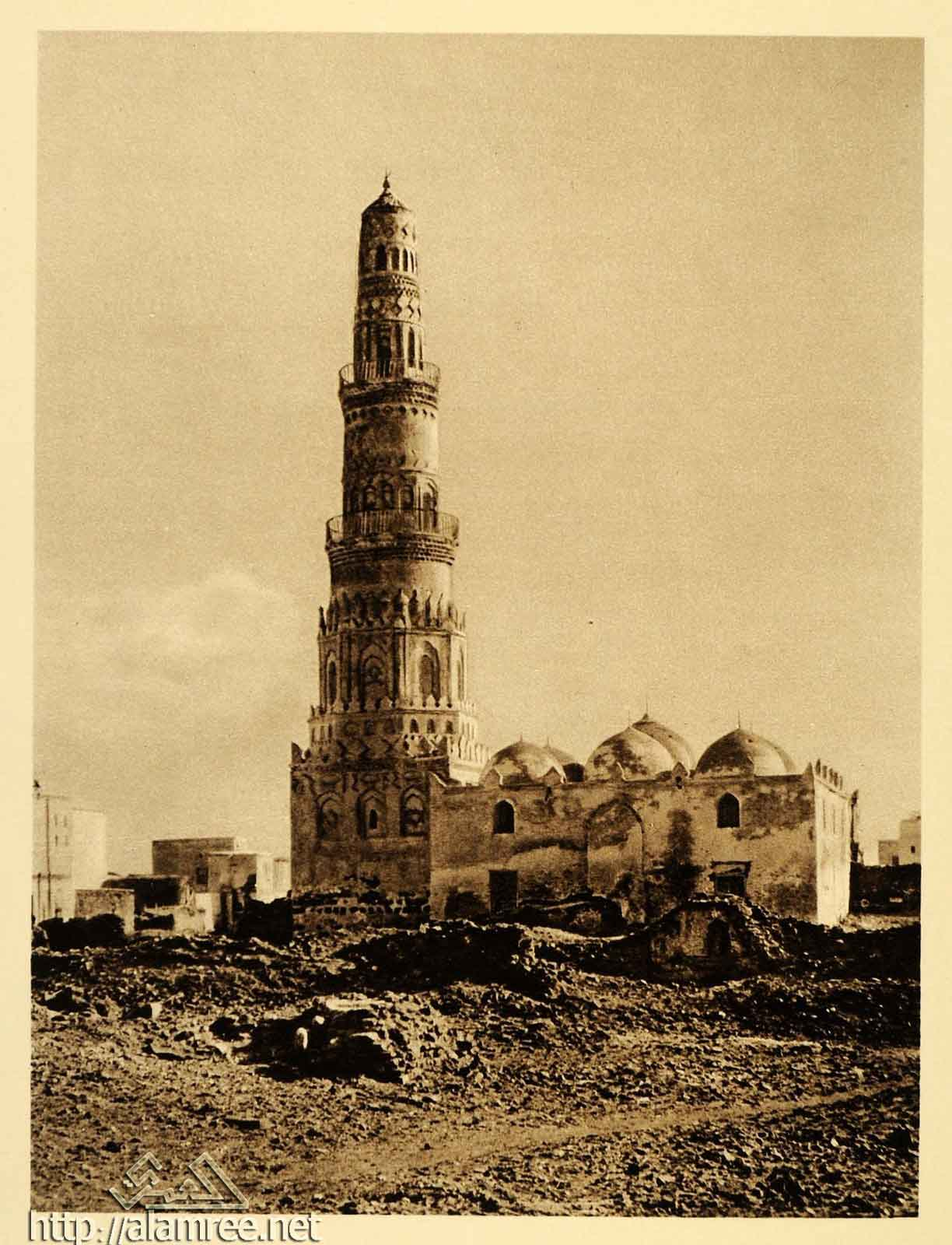 Mosque of Mocca 1926